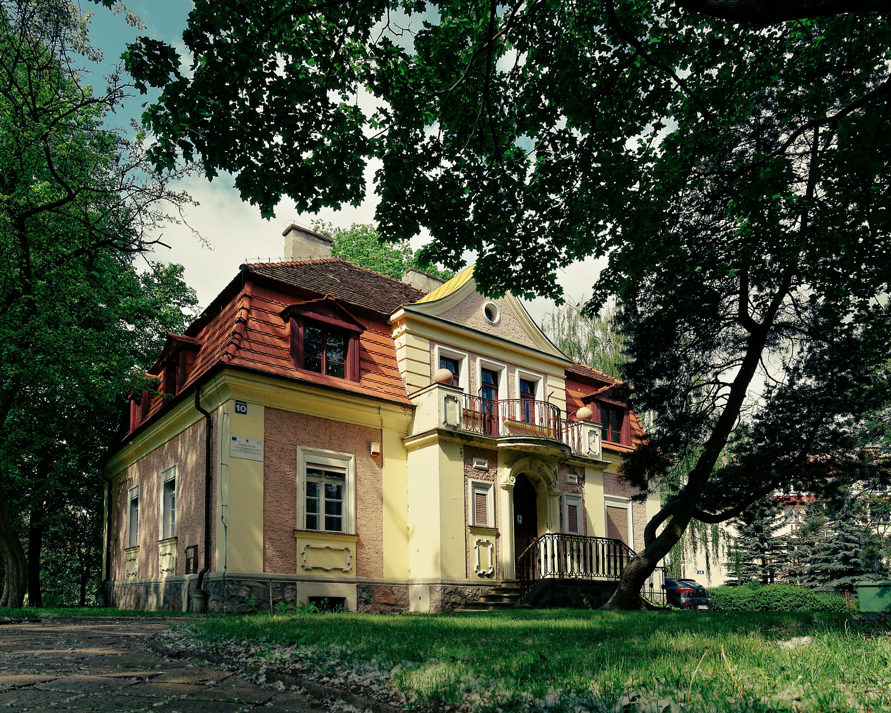 Ełk - Piłsudski St. - May 2016